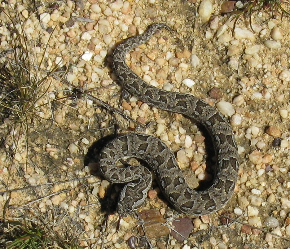 This was a little specimen, somewhere between 15 and 30 cm long. The pattern and coloration is typical of the specimens in the cedarberg